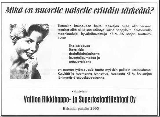 Finnish Valtion Rikkihappo ja Superfosfaatti -factory is advertising it's beauty series.